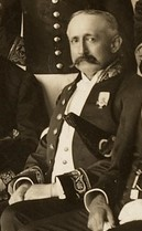 Cropped portion of original photo, to include Carl Ludwig Sahl, German Consul in Sydney, 23 November 1895, at Government House, Sydney, for the reception of new Governor Lord Hampden. Original caption: "Photo taken in Government House Vestibule after the Consuls had presented their address. The Consuls represent (left to right back row) Denmark, Greece, Argentine Republic, Peru, Portugal, Hungary, Spain, Hawaiian Islands, Netherlands, Belgian; (sitting left to right) Sweden and Norway, France, New South Wales, Chili, Russia, Germany, Costa Rica, Nicaragua, Chili and Netherlands."